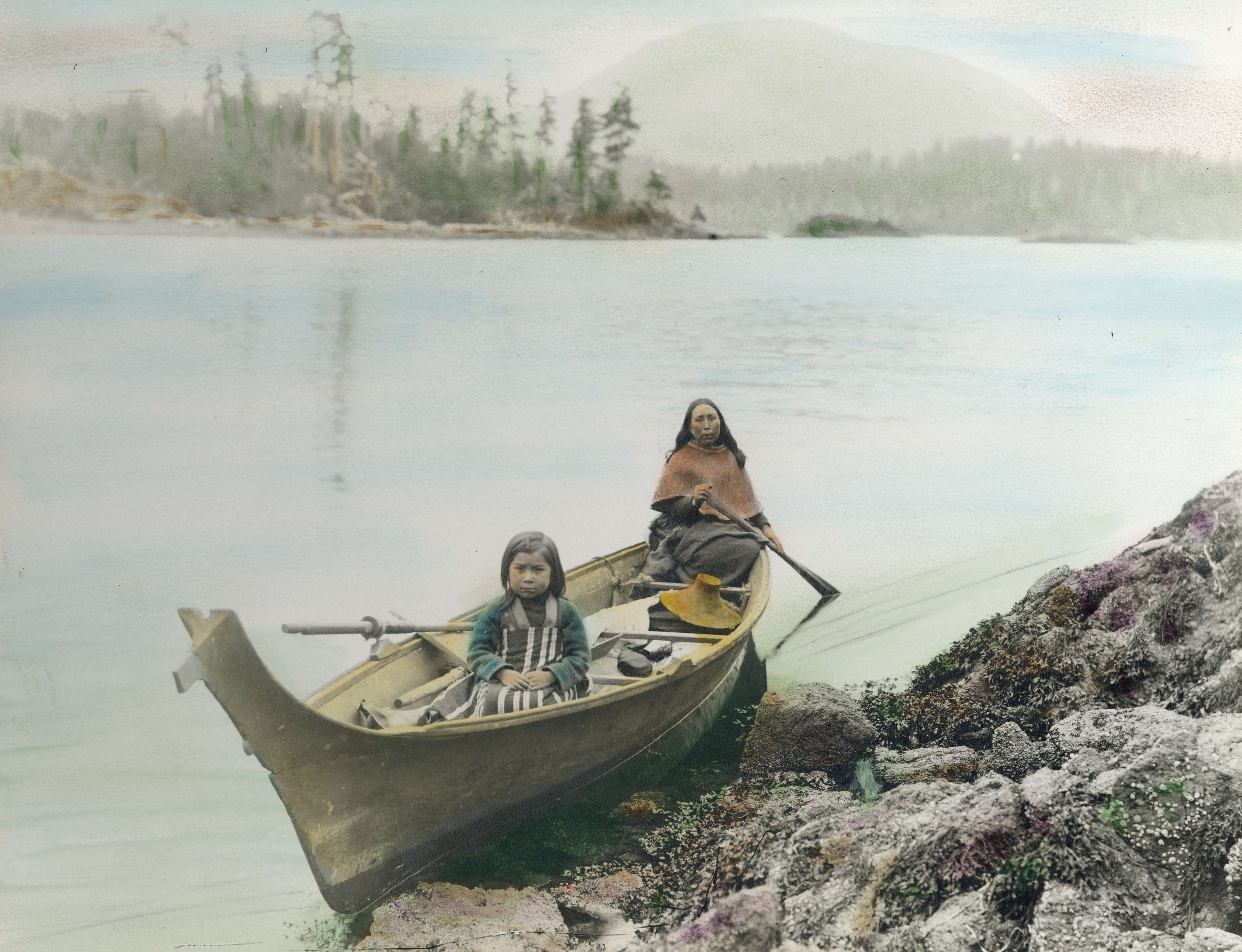 Harvesting clams in canoe. Kwakwakaʼwakw, Vancouver Island, BC.